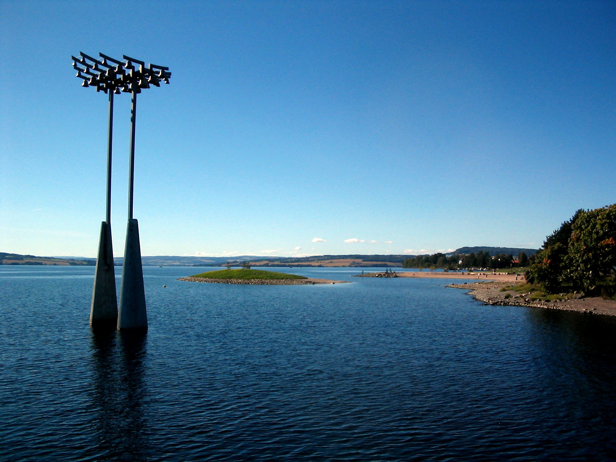 The clock tower and Koigen island in Lake Mjøsa, Norway.